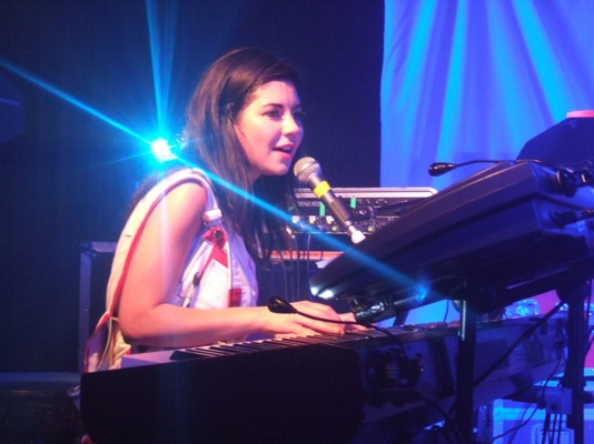 Marina and the Diamonds performing on The Gem Tour at The Glee Club, Birmingham.